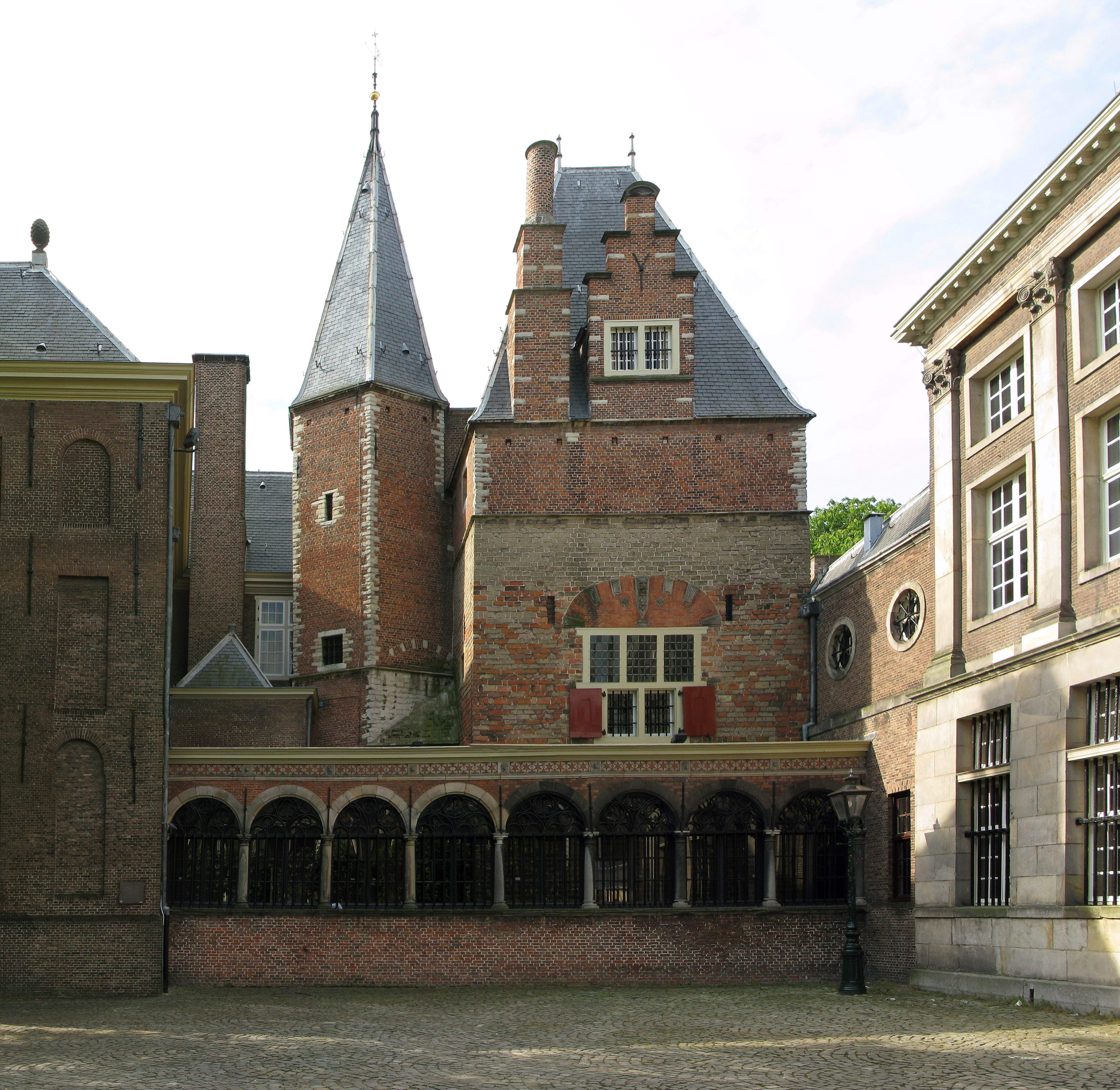 Het Gravensteen op plein Het Gerecht